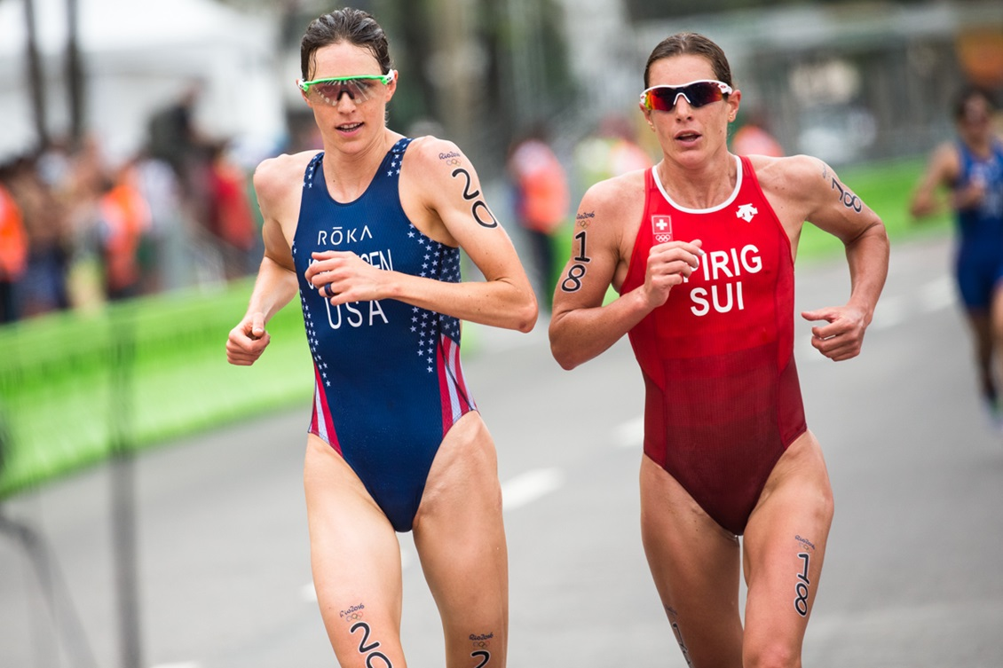 Triathlon at the 2016 Summer Olympics